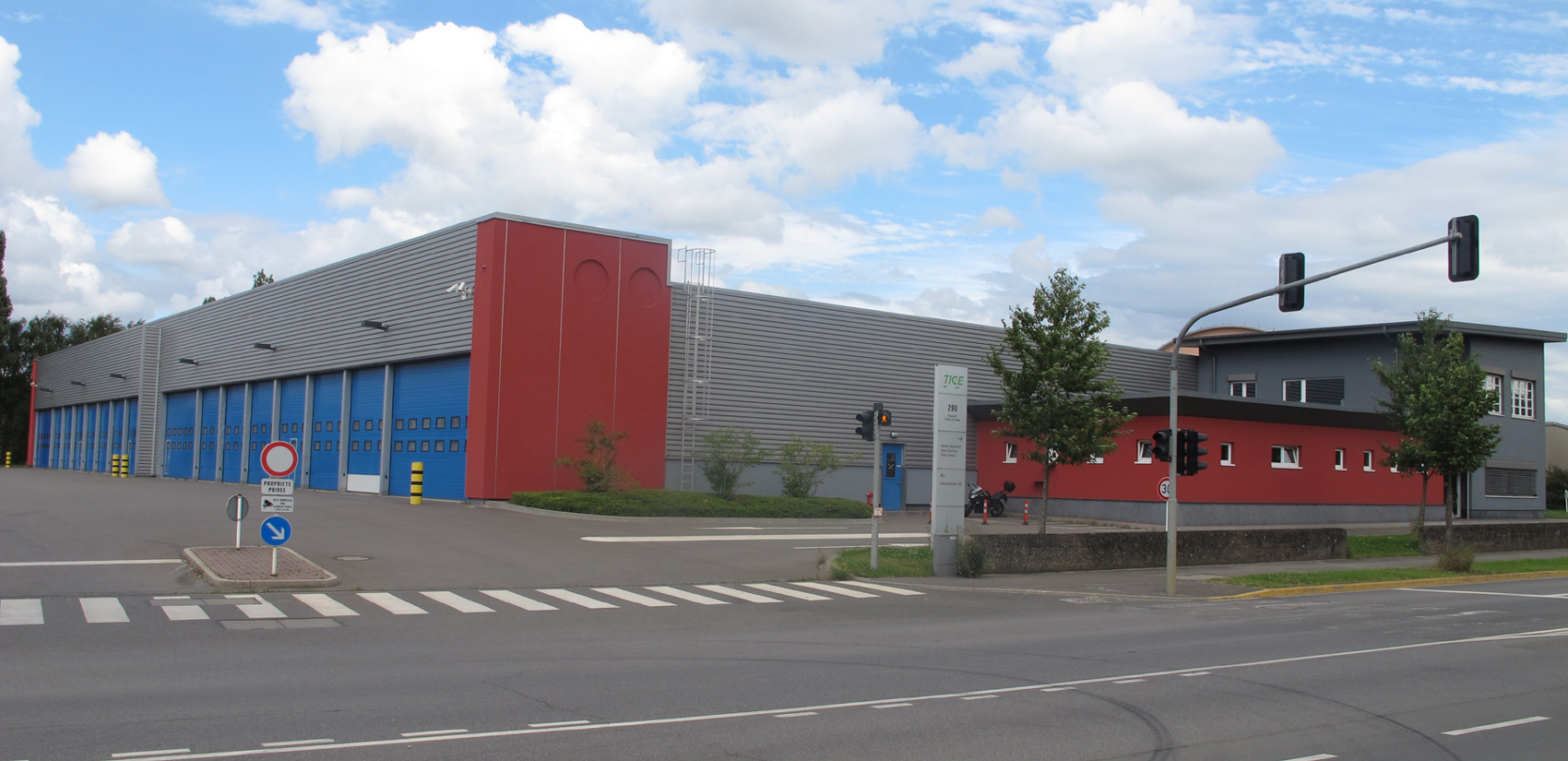 Tice-Busgarage in Esch-Alzette, Luxembourg